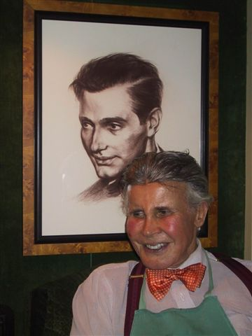 Robert Denning in his apartment siting in front of a portrait of his late partner Vincent Fourcade Photograph taken by D C McJonathan in 2002.